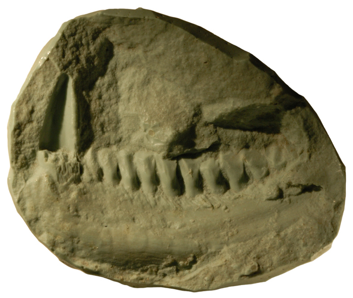 natural silicone cast of the holotype of Lycorhinus angustidens (UCRC PVC10). Abbreviations: 3-10 dentary tooth 3-10 Fa-j tooth-to-tooth wear facet a-j f accessory facet. Scale bars equal 1 cm in C and 3 cm in D.